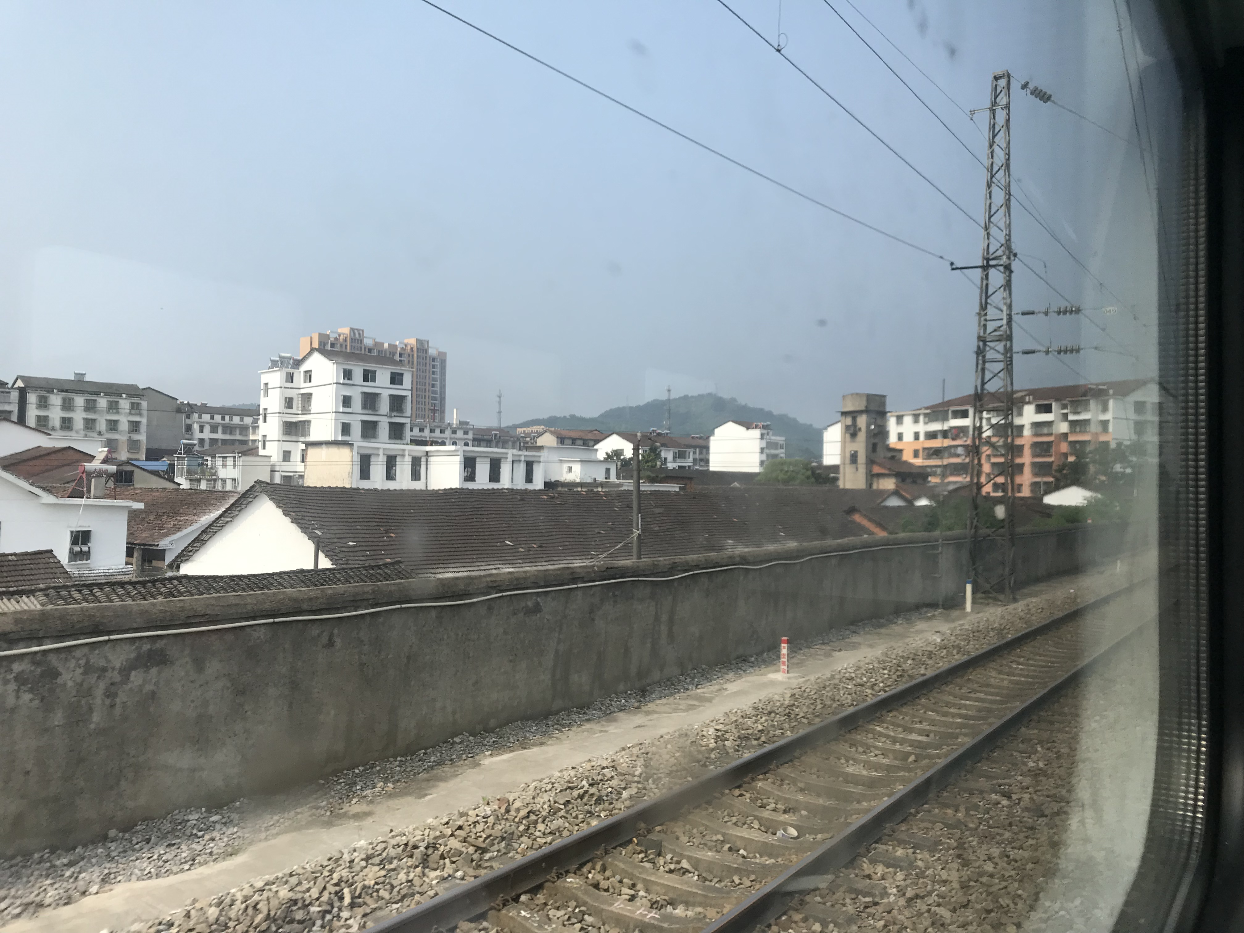 The place-name-etymology seems very similar to the Kwun Tong in Hong Kong...